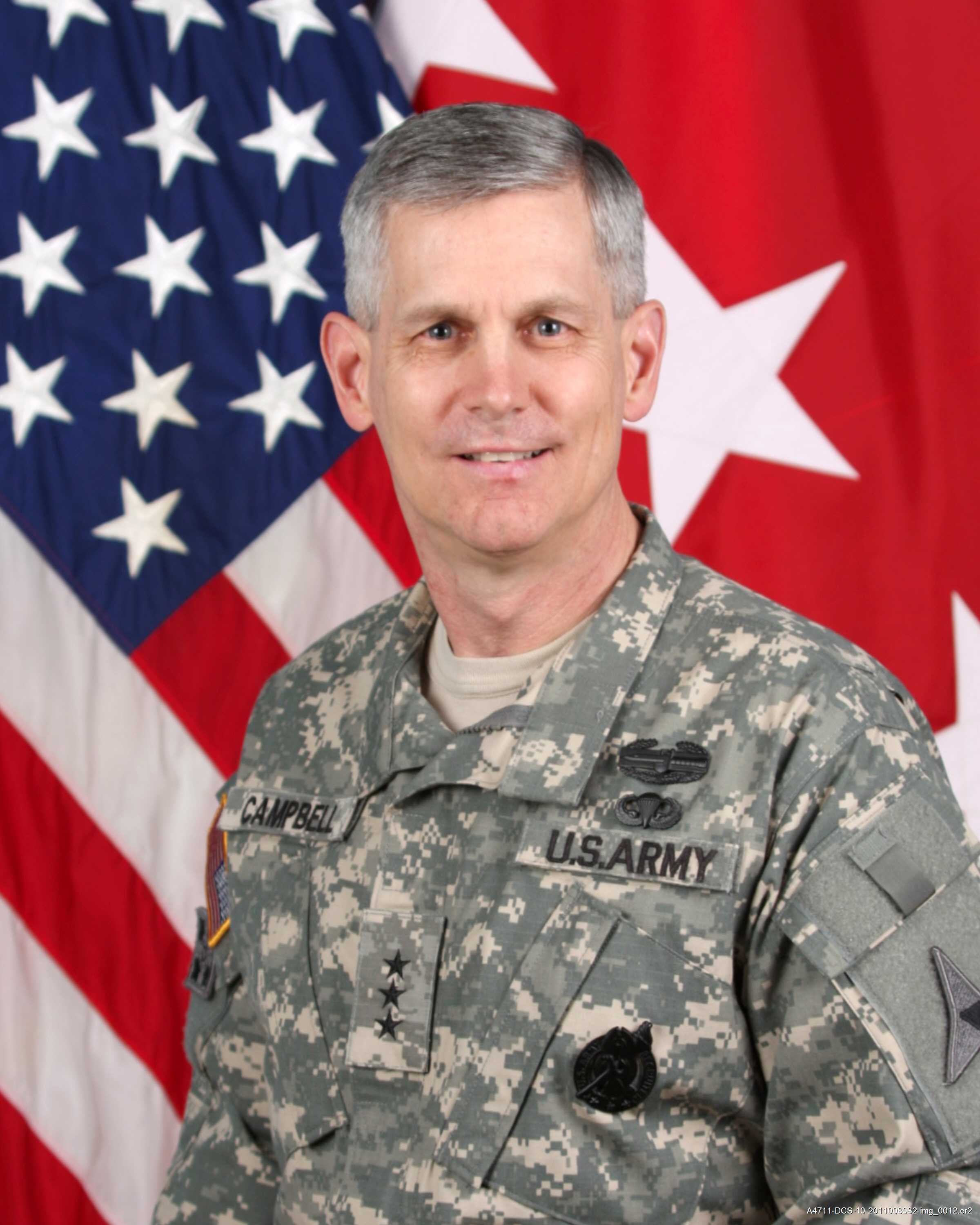 Lieutenant General Donald M. Campbell, Jr. is the commanding general of III Corps and Fort Hood, at Fort Hood, TX. He has held this position since April 2011.